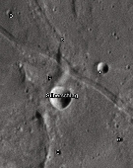 Silberschlag lunar crater as seen from Earth with satellite craters labeled